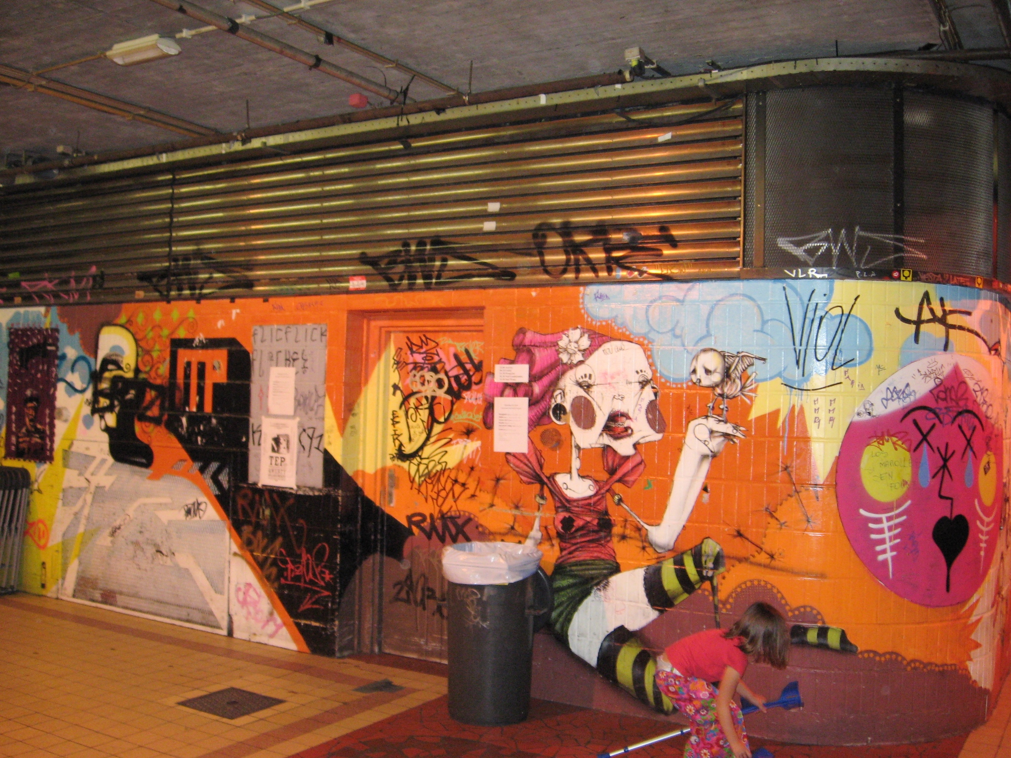 Graffiti on the walls of Brussel-Kapellekerk / Bruxelles-Chapelle railway station in Brussels